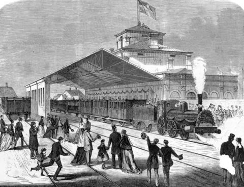 A Xylography from Illustreret Tidende on 26 September 1869 showing the first train arriving at Aalborg Station on 18 September 1869.